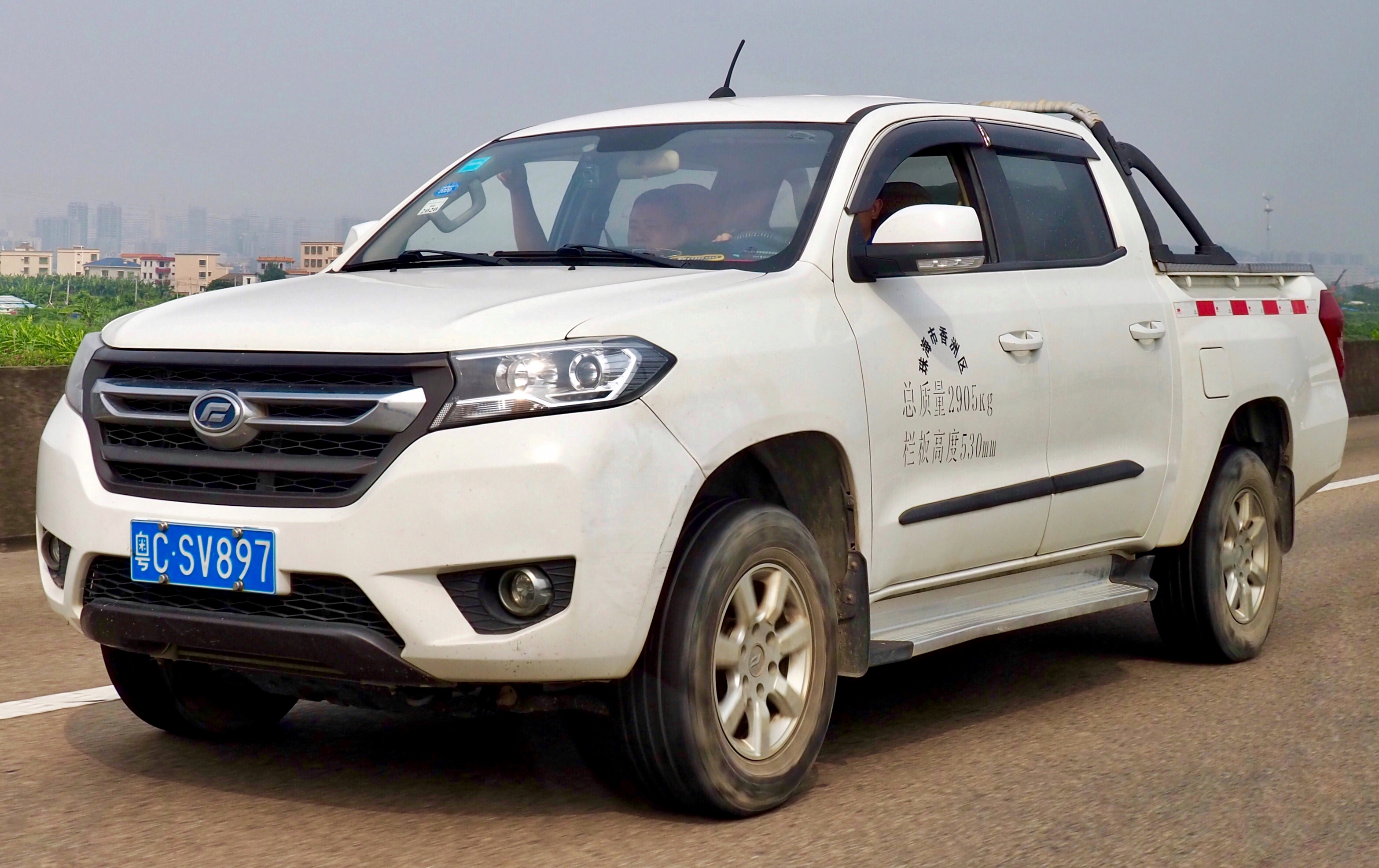 A 2017 Guangdong Foday Xiongshi F22 photographed in Zhongshan, Guangdong province, China. 中文（中国大陆）: 一辆2017年的广东福迪雄狮F22，摄于中国广东省中山市。